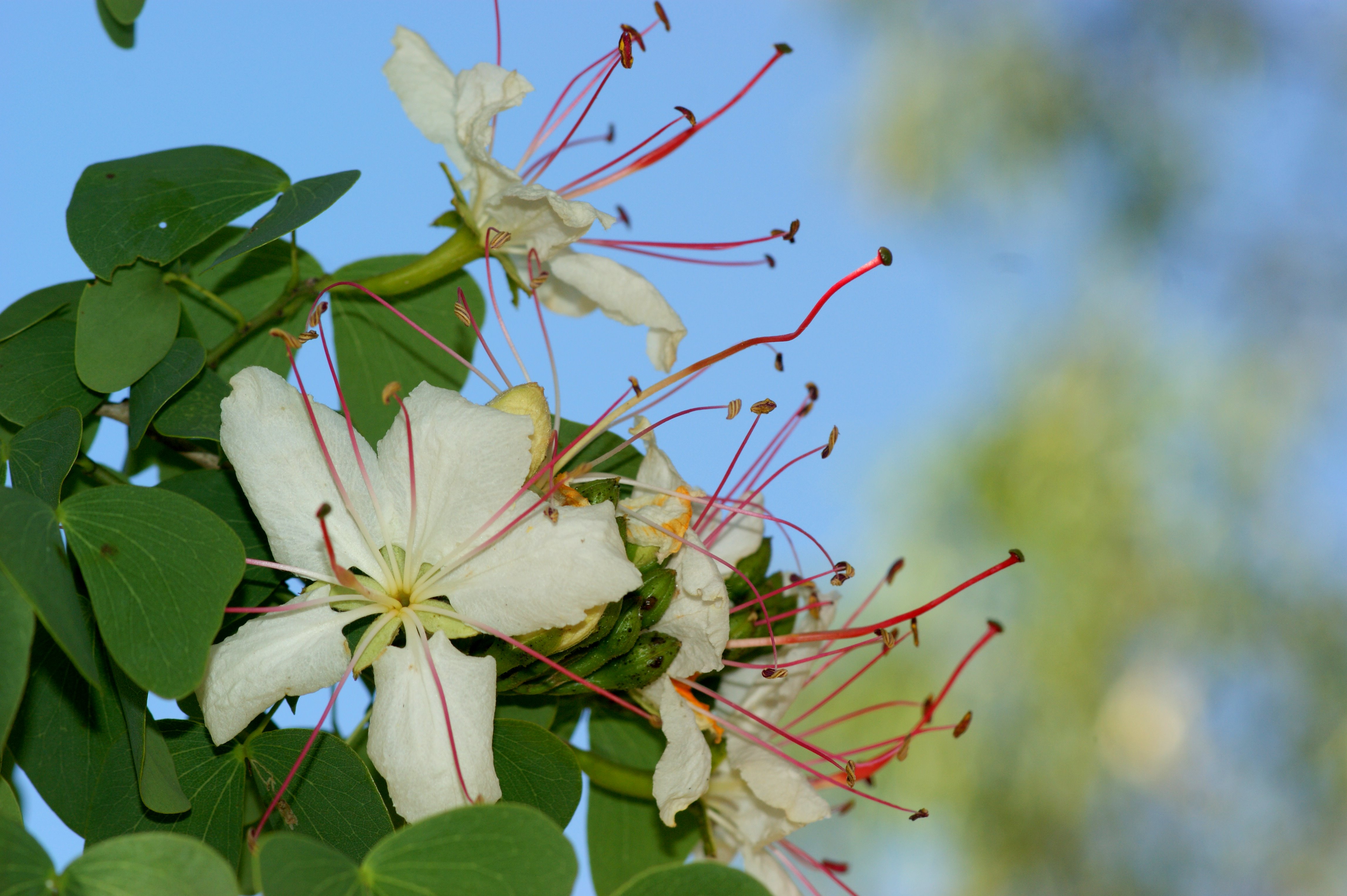 If ever in C'ville from September to November, a stroll around the course will give a good representation of the local vegetation